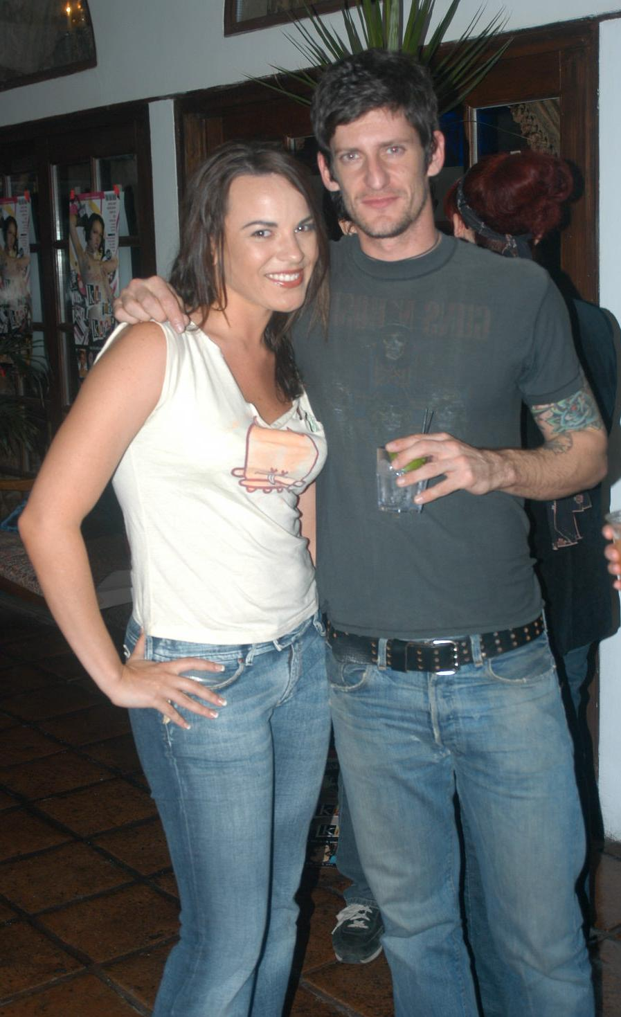 Porn star Dana DeArmond with a man at Kill Girl 3 Party.